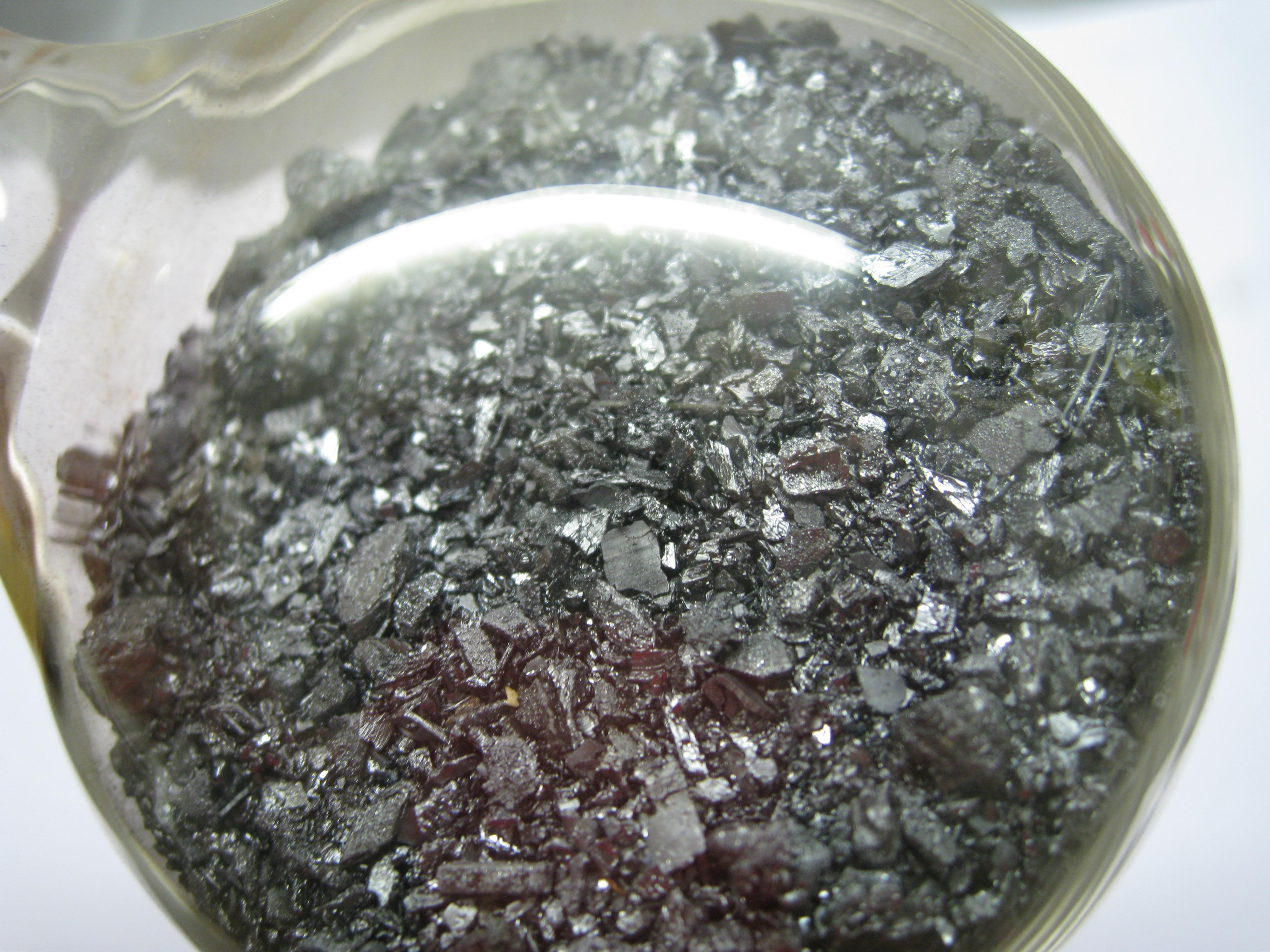 Iodine sealed in glass-bottle from the Dennis s.k collection.